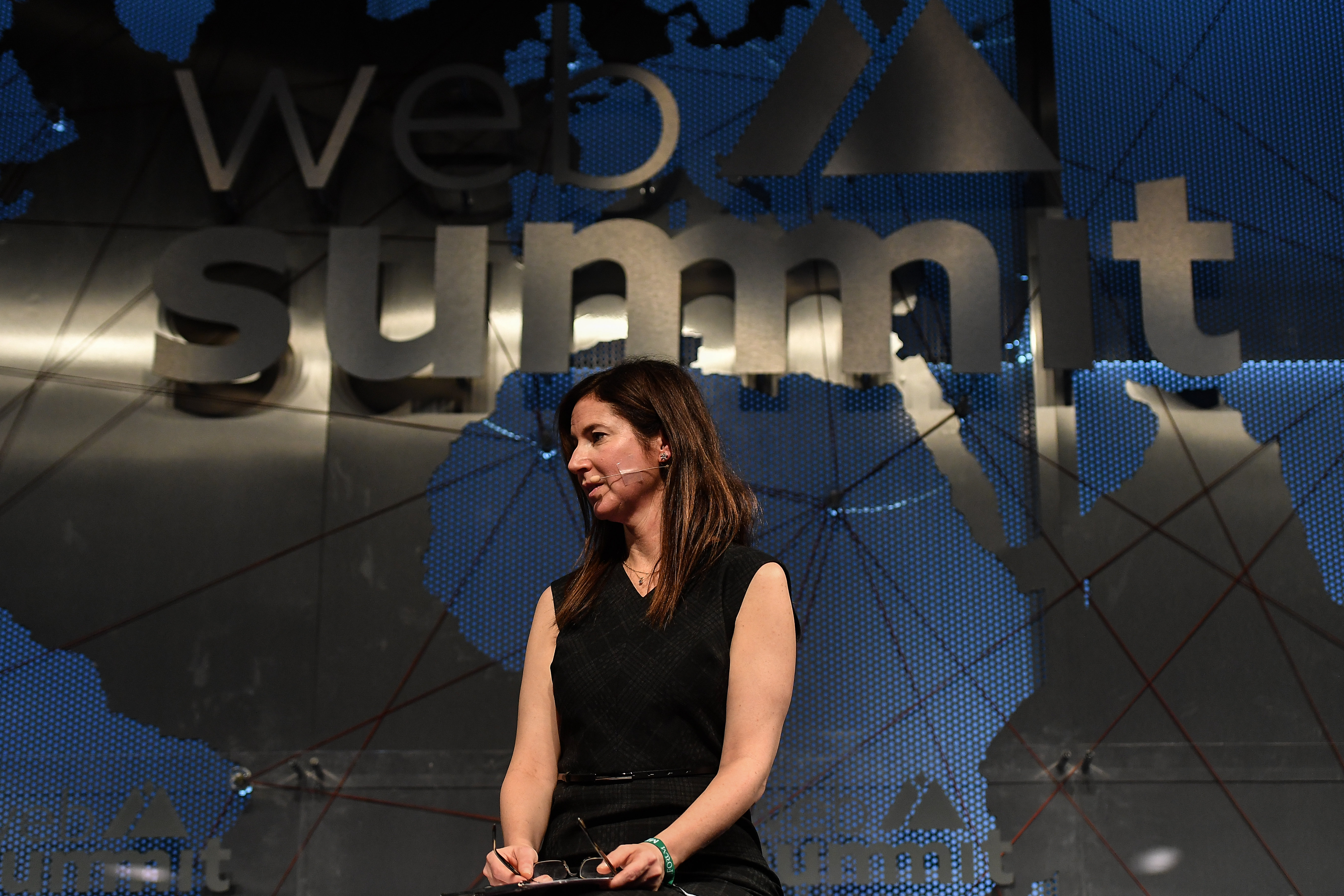 5 November 2019; Dafna Linzer, Managing Editor for Politics, NBC TV Group on Future Societies stage during the opening day of Web Summit 2019 at the Altice Arena in Lisbon, Portugal. Photo by Piaras Ó Mídheach/Web Summit via Sportsfile